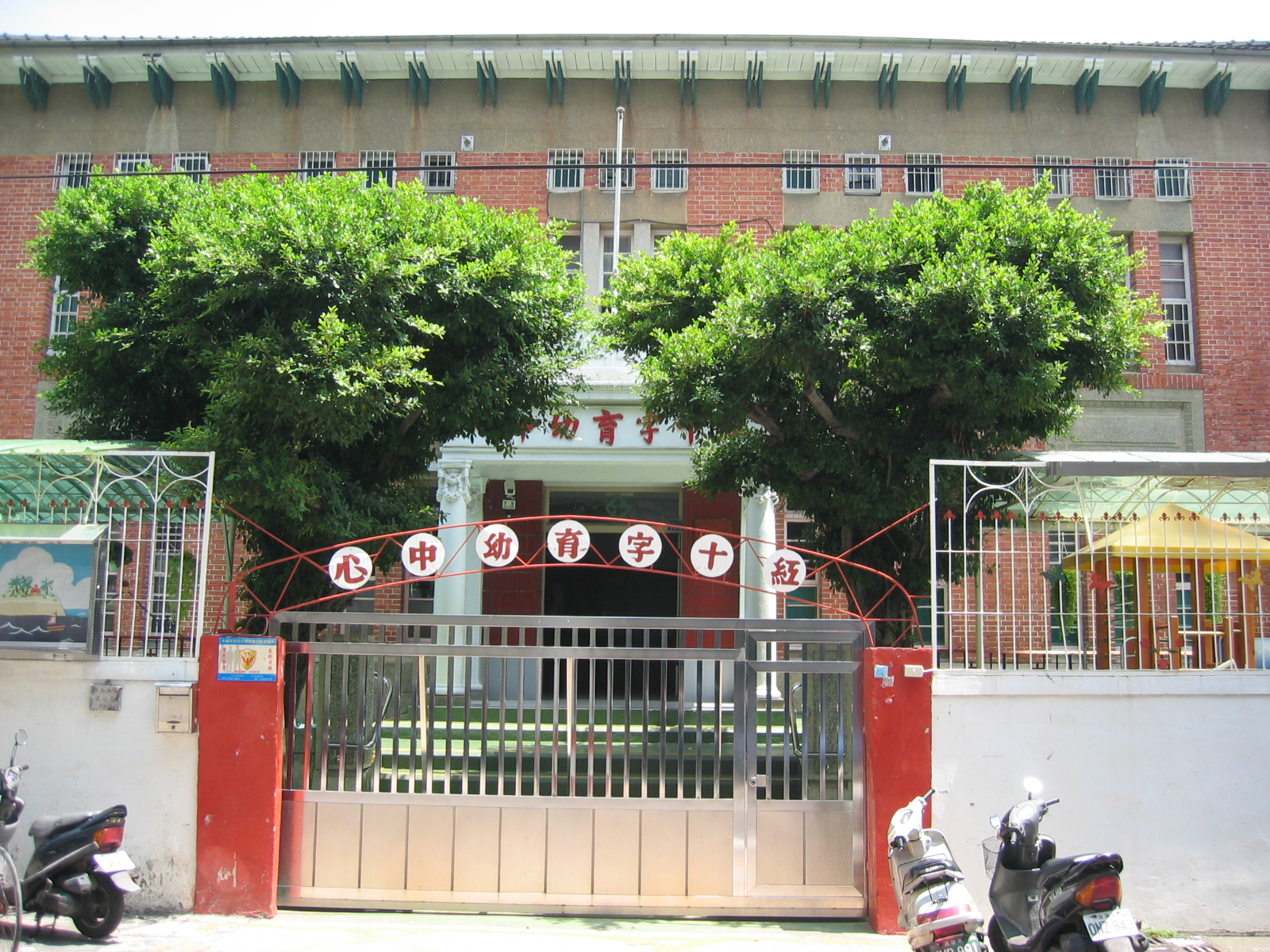 Kaohsiung Red Cross Nursery Center